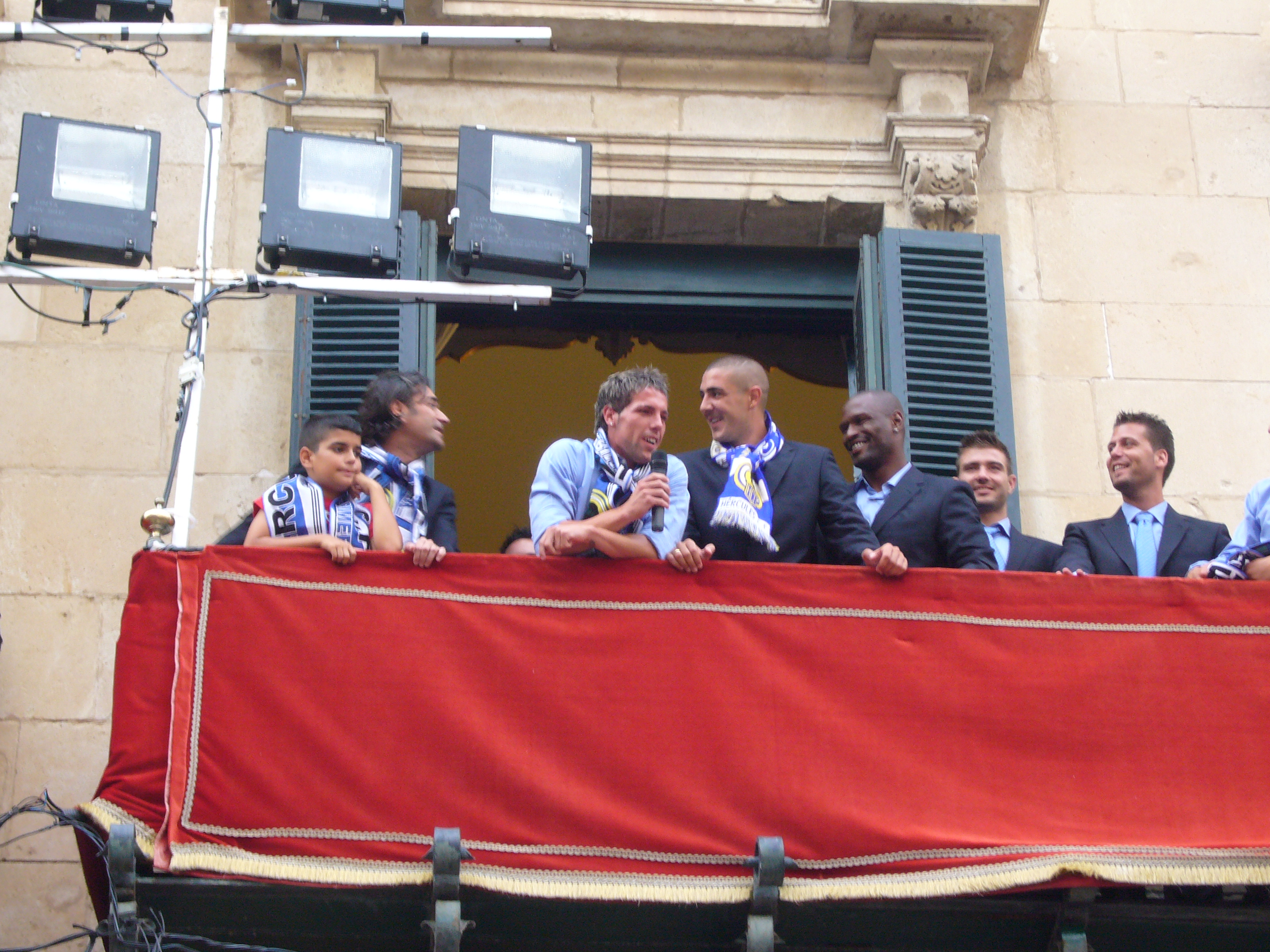 Cristian Hidalgo (with microphone in hand) on the balcony of the City of Alicante during the celebrations for the rise of Hércules C. F. to First division in 2009/10 season.